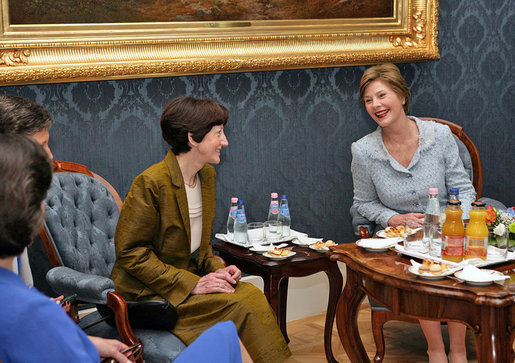 Mrs. Laura Bush attends a tea hosted by Hungarian First Lady Erzsebet Solyom at Sandor Palace in Budapest, Hungary. White House photo.